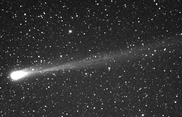 Comet C/1996 B2 (Hyakutake) in the evening of its closest approach to Earth. (See the source page for more details.)